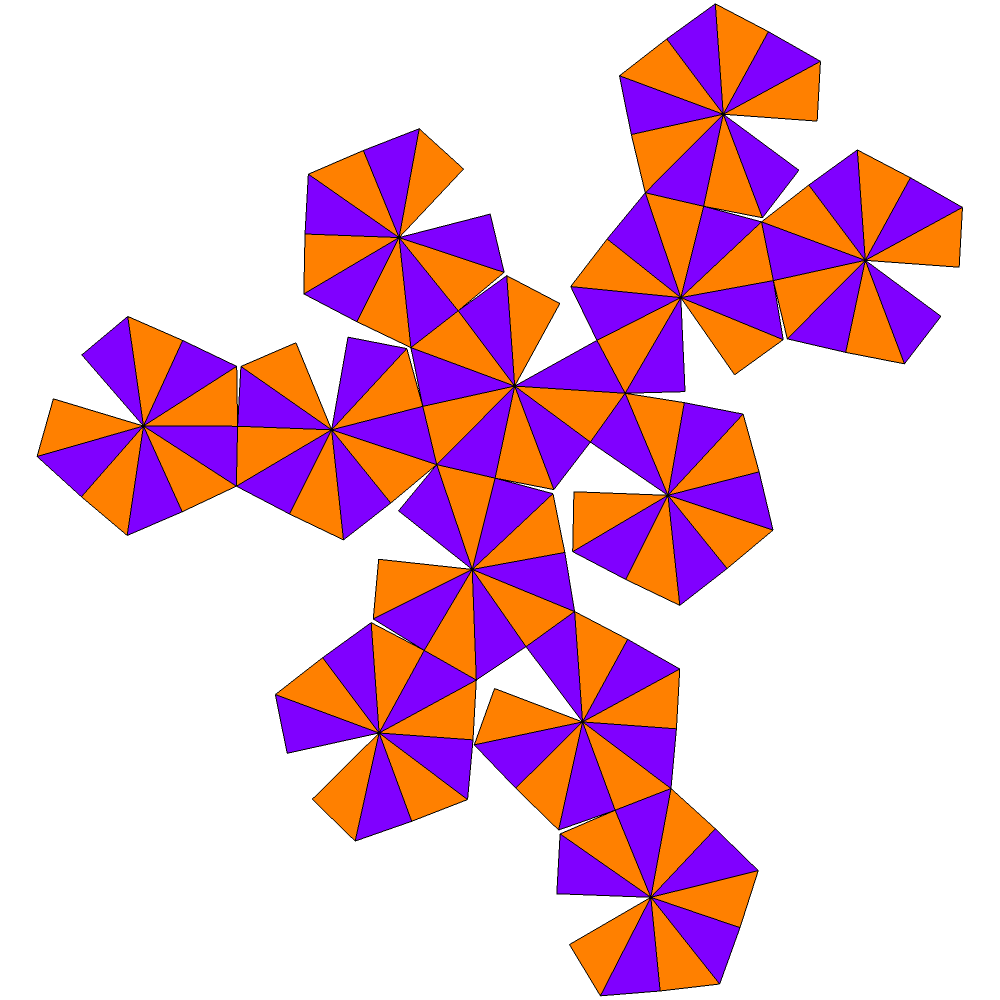 Disdyakistriacontahedron net